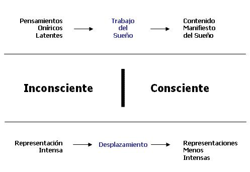 Diagrama Sueño